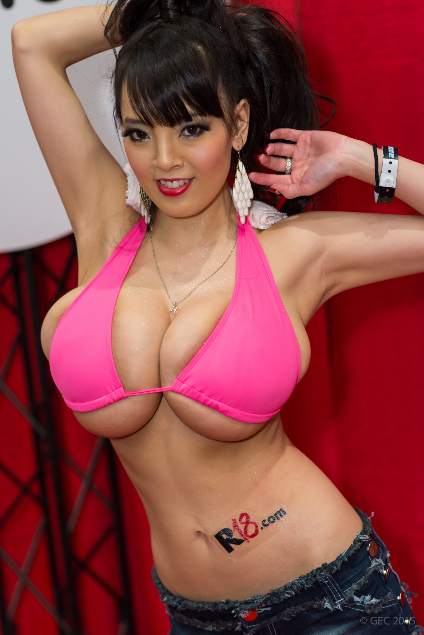 Hitomi Tanaka, simply known as Hitomi, at the AVN Adult Entertainment Expo in Las Vegas on January 22, 2015